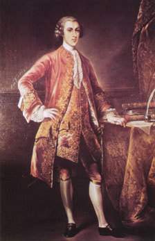 Frederick Calvert, 6th Baron Baltimore